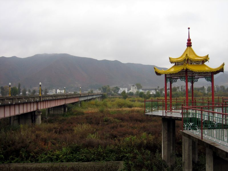 Looking over the border bridge into North Korea at the border town of Tumen City.